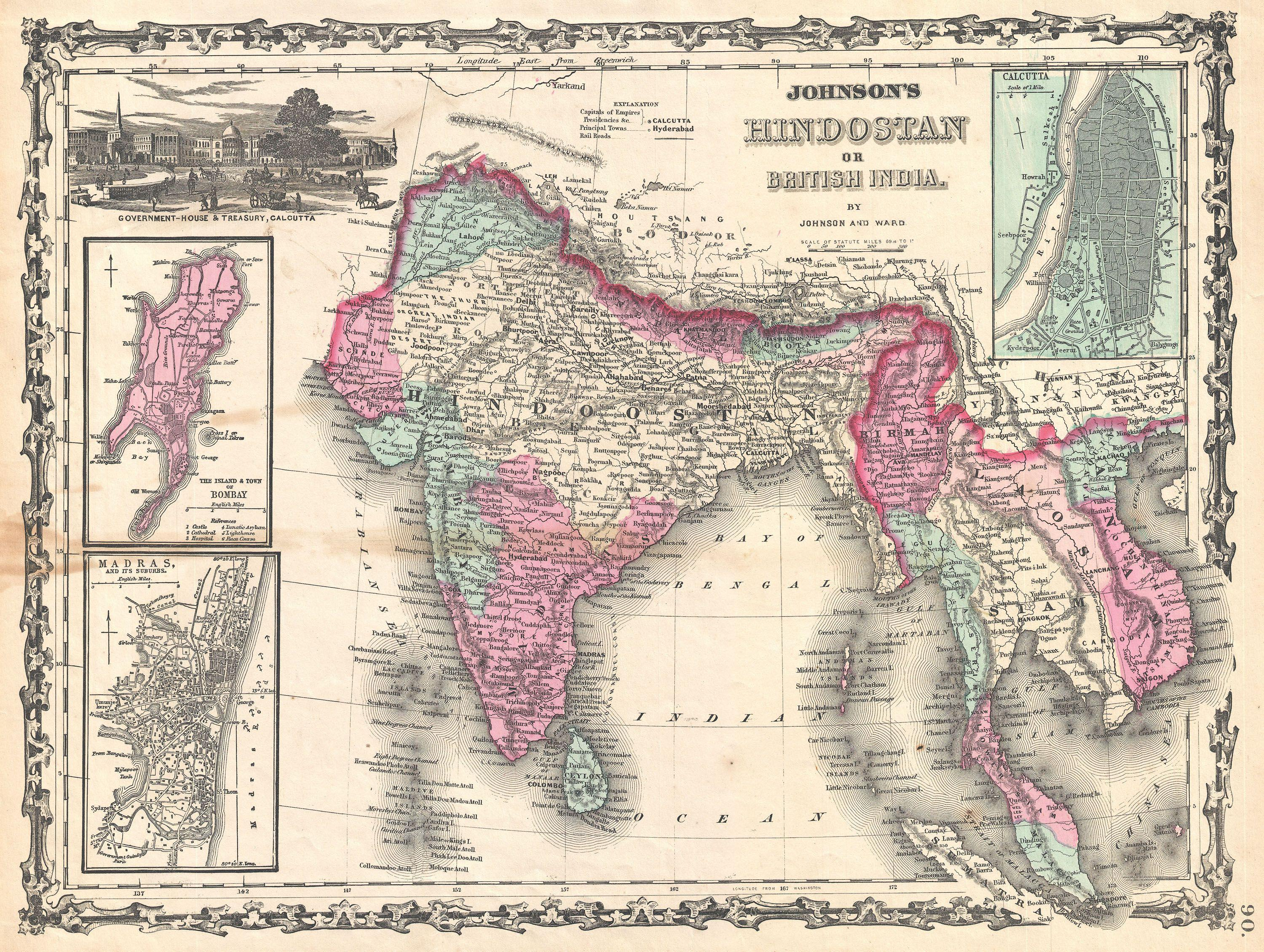 A very nice example of A. J. Johnson’s 1862 map of India and Southeast Asia. Covers from the Mouths of the Indus River eastward to include all of India, Burma, Siam (Thailand), Laos, Cambodia, Malaysia (Malacca) and Vietnam (Tonquin and Chochin). Also includes parts of Nepal, China, Bhutan, Sumatra and Ceylon (Sri Lanka). Offers color coding according to country and region as well as notations regarding roadways, cities, towns, and river systems. Three inset maps focus on the Island of Bombay (Mumbai), Madras, and Calcutta. An view of the Government House and Treasury in Calcutta adorns the upper left corner. Features the strapwork style border common to Johnson’s atlas work from 1860 to 1863. Published by A. J. Johnson and Ward as plate number 90 in the 1862 edition of Johnson’s New Illustrated Family Atlas . This is the first edition of the Family Atlas to bear the Johnson and Ward imprint.